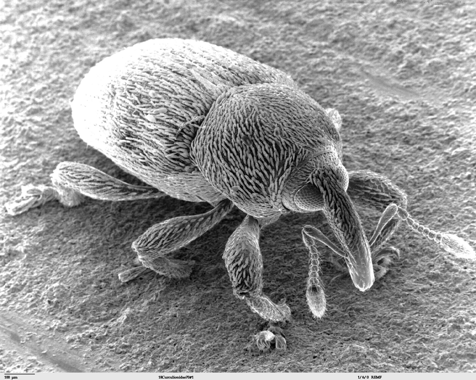 Scanning electron microscope image of a snout beetle Class Insecta Order Coleoptera - beetles Suborder Polyphaga Super Family Curculionoidea Family Curculionidea - snout beetles JEOL 35C SEM